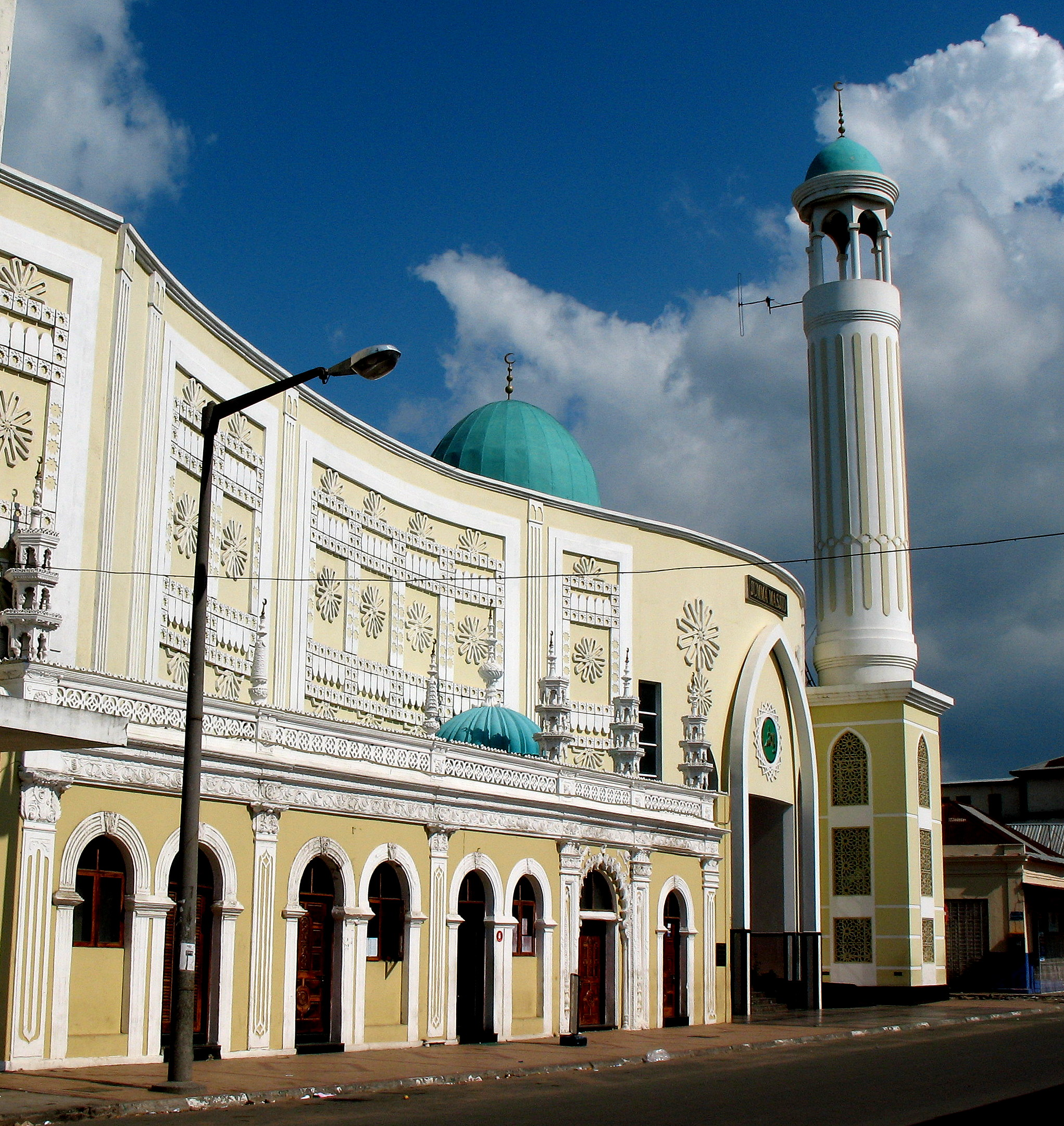 Central Mosque (Jumma Masjid), Maputo, Mozambique